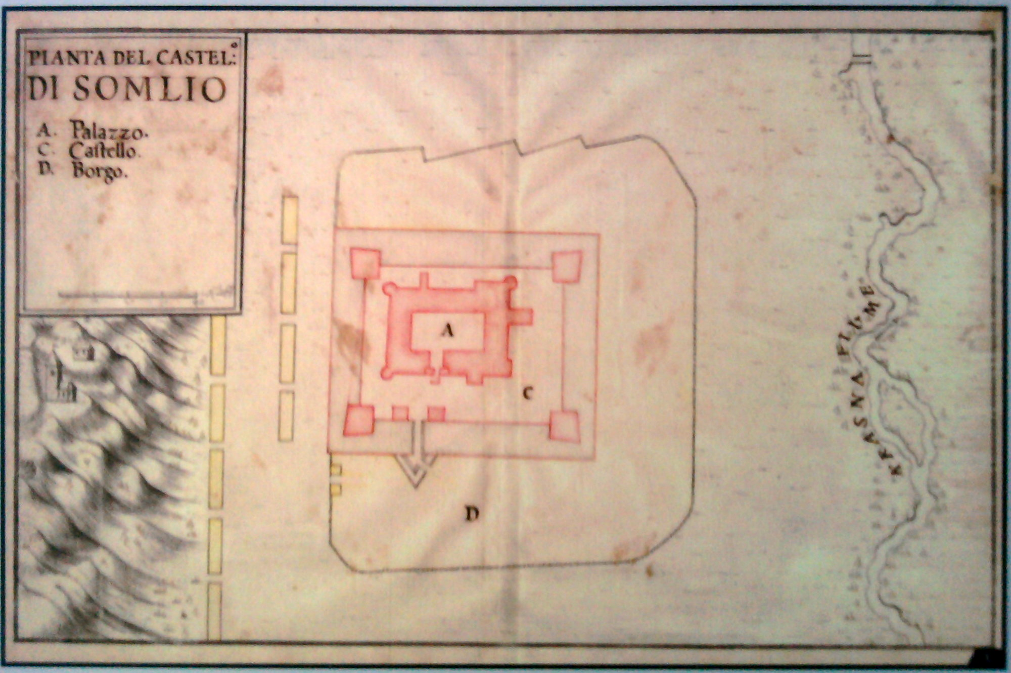 Map of the Şimleu Silvaniei castle, Romania by the Italian naturalist and soldier Luigi Ferdinando Marsigli (1658 – 1730).